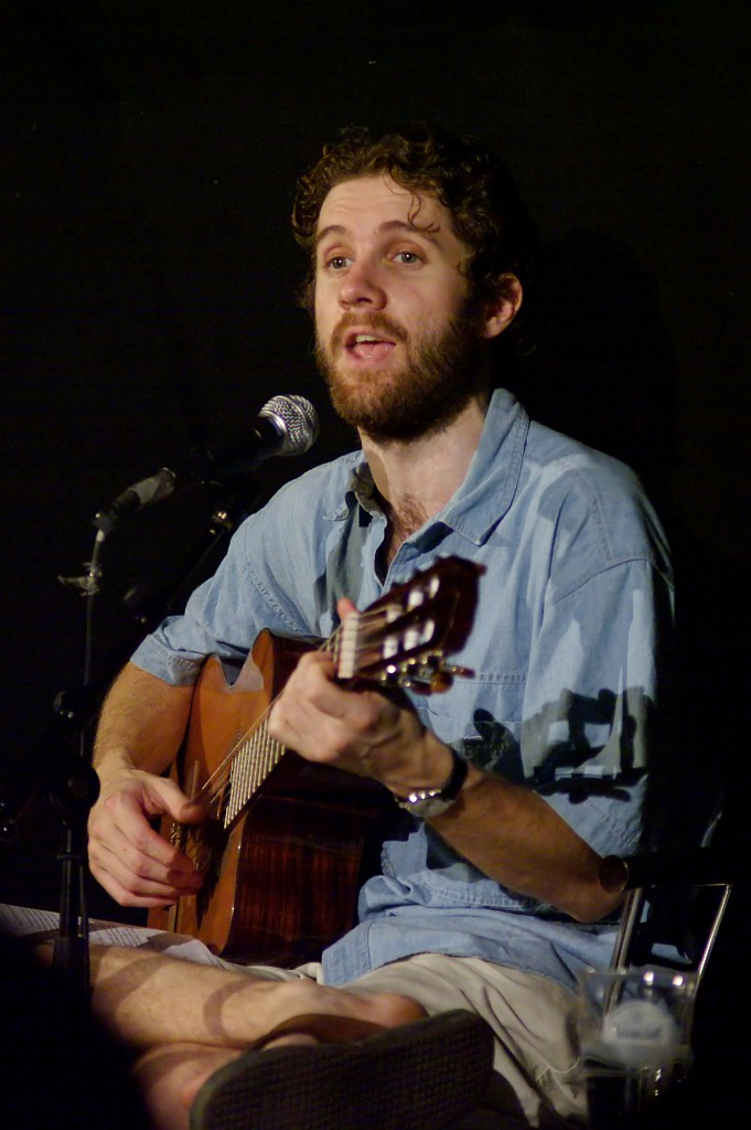 Abie Philbin Bowman performing 'Eco-friendly Jihad' at the Underbelly during the Edinburgh Festival 2008